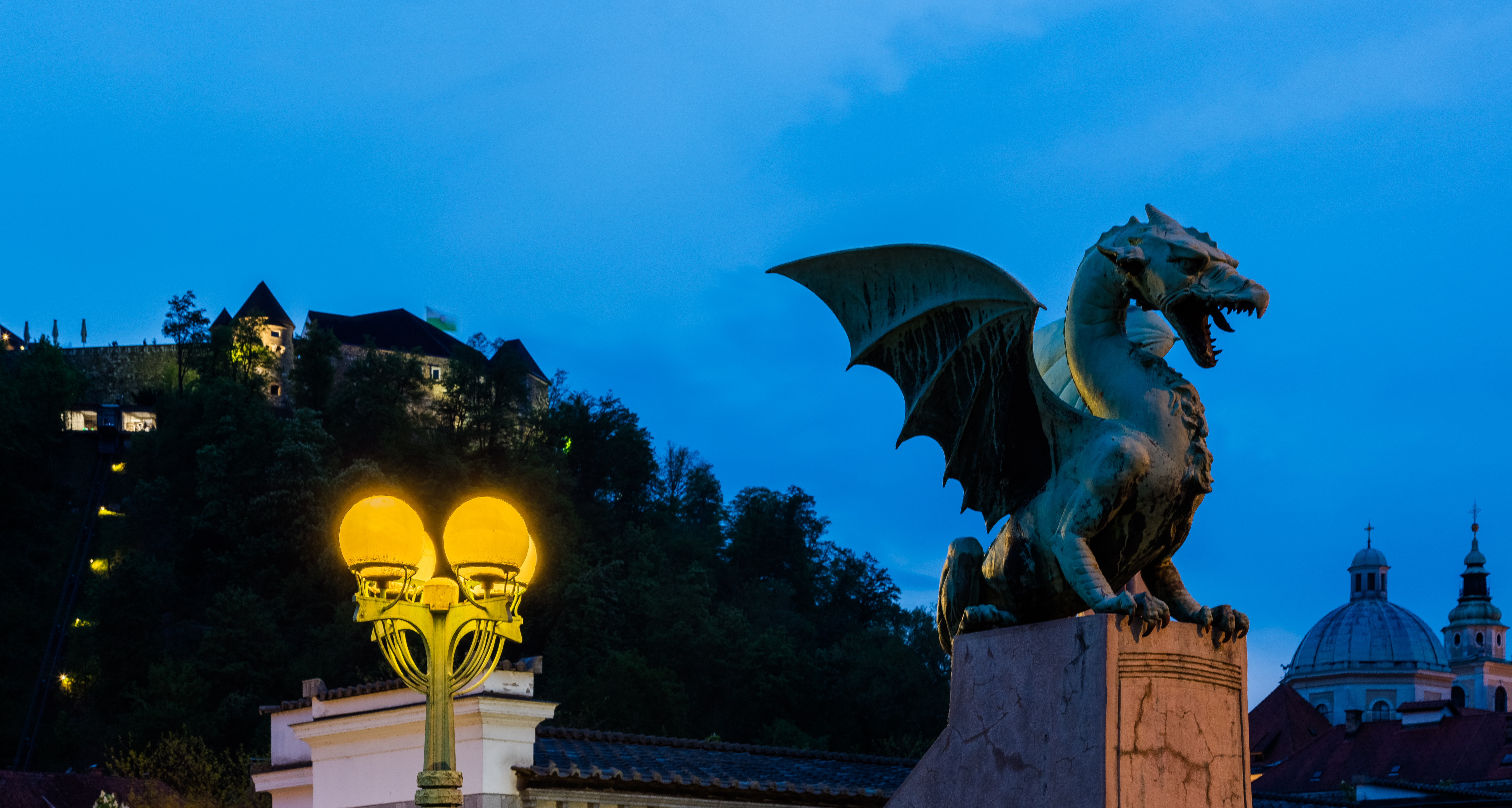 Dragons on the Dragon Bridge, Ljubljana, Slovenia